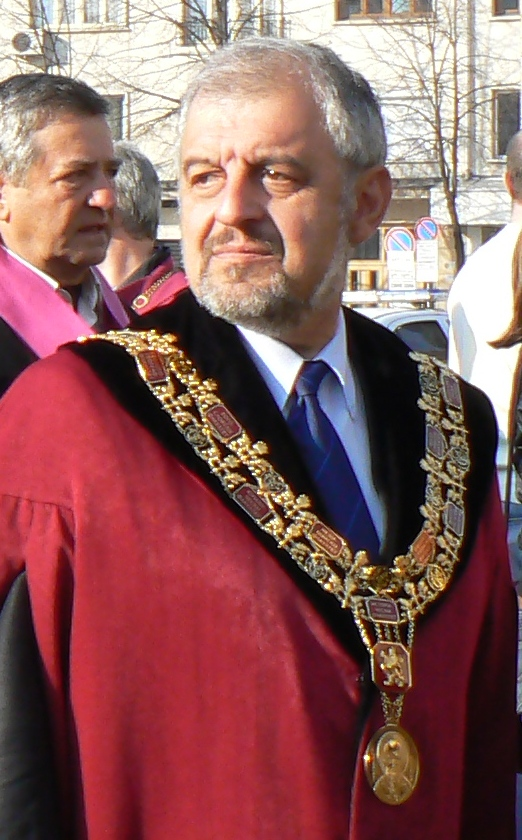 Prof. Ivan Ilchev, Rector of Sofia University